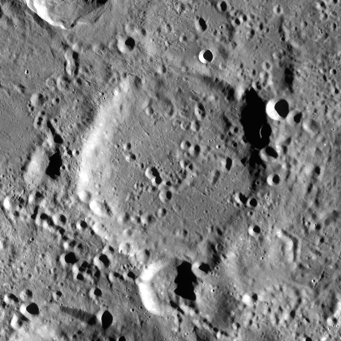 Crater Legendre on the Moon. Mosaic of photos by Lunar Reconnaissance Orbiter, made with Wide Angle Camera. Size of the image is 140×140 km, north is up.